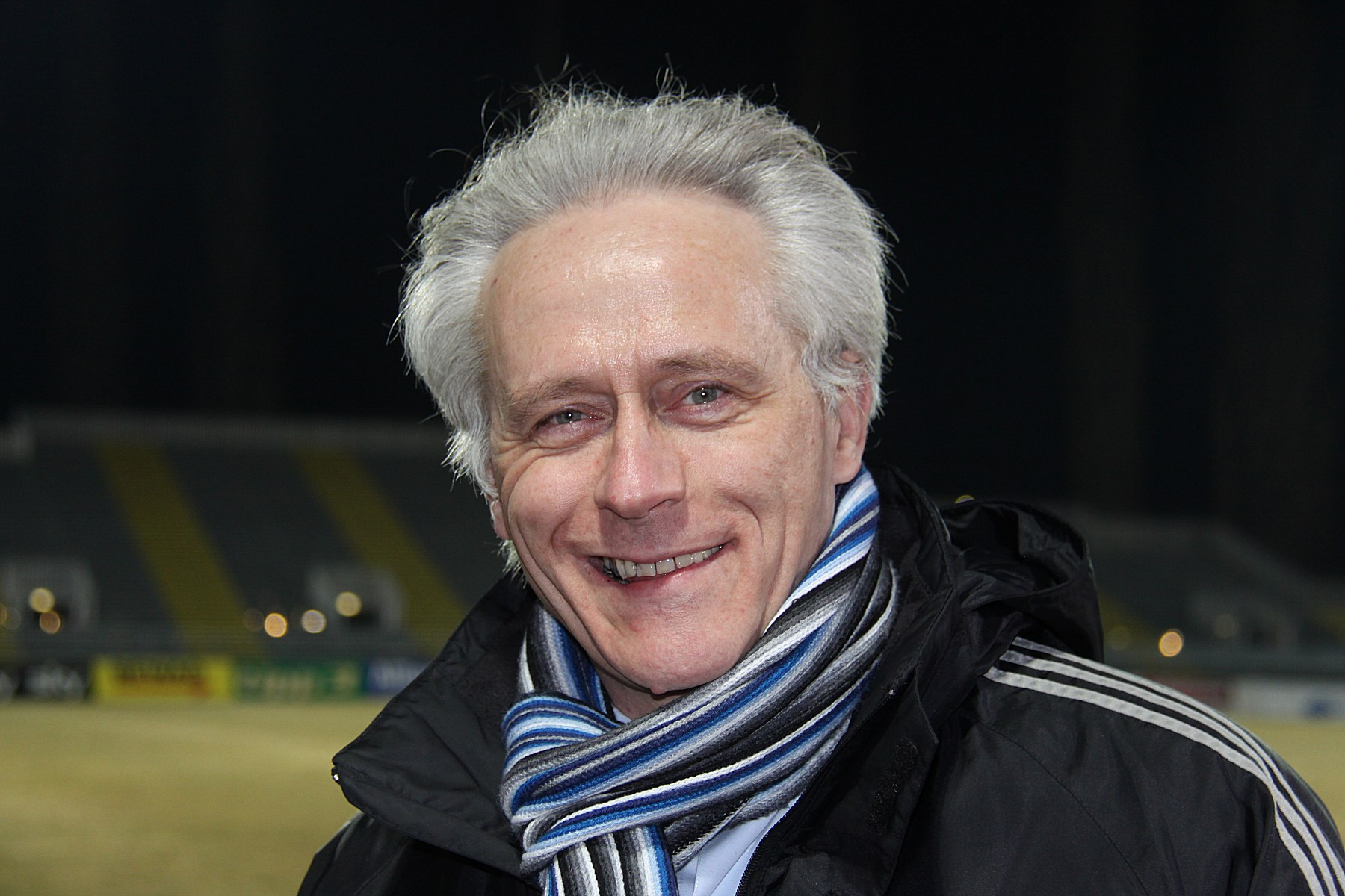 Wolfgang Sowa - Referee of Austria